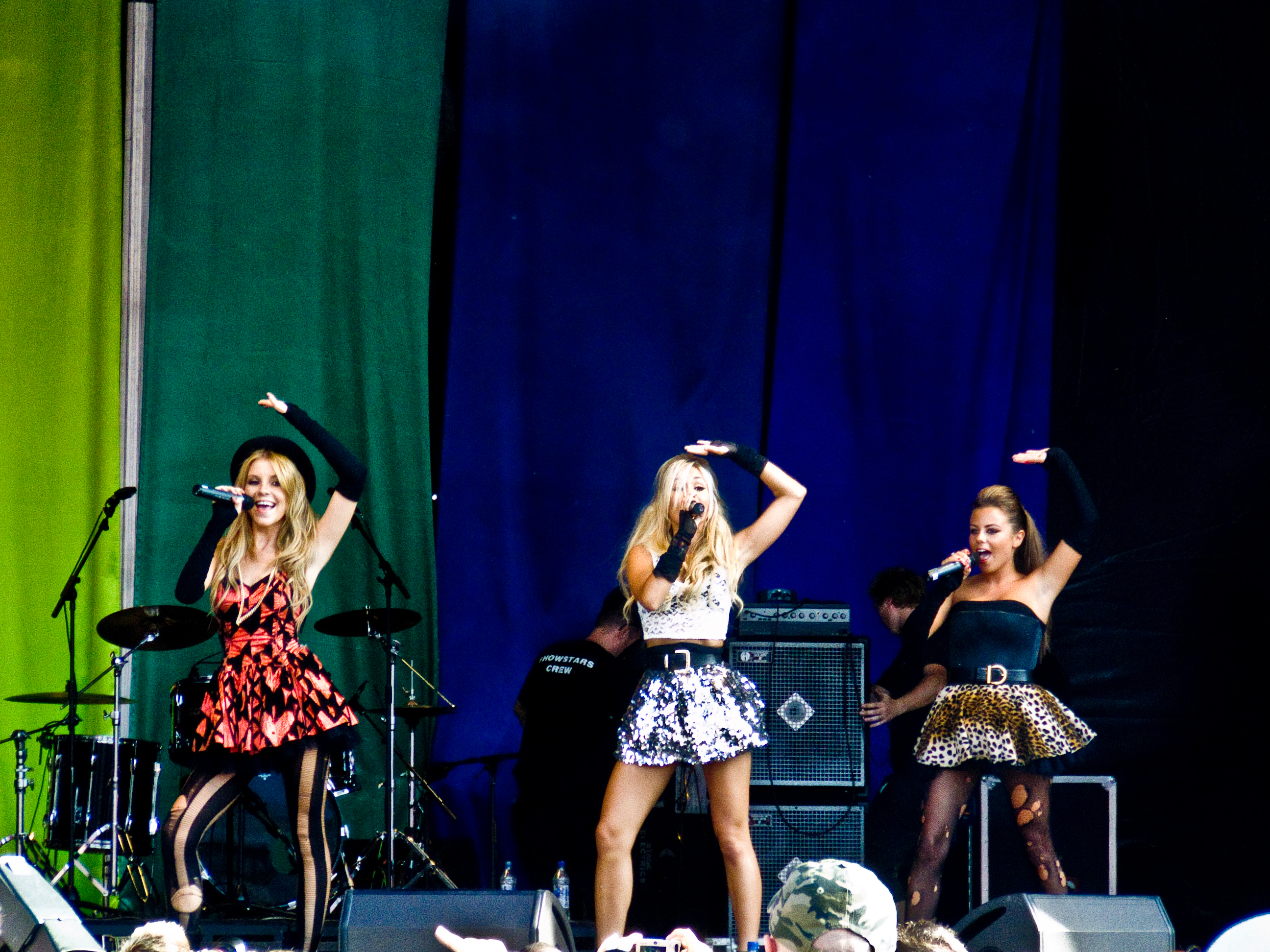 The Dolly Rockers on stage.